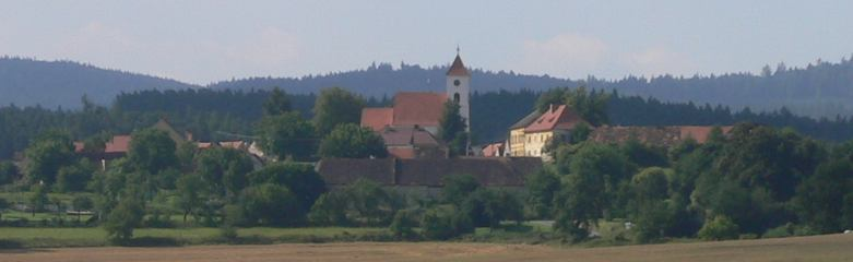 Village of Čakov (České Budějovice District, Czech Republic) with St Leonard church.